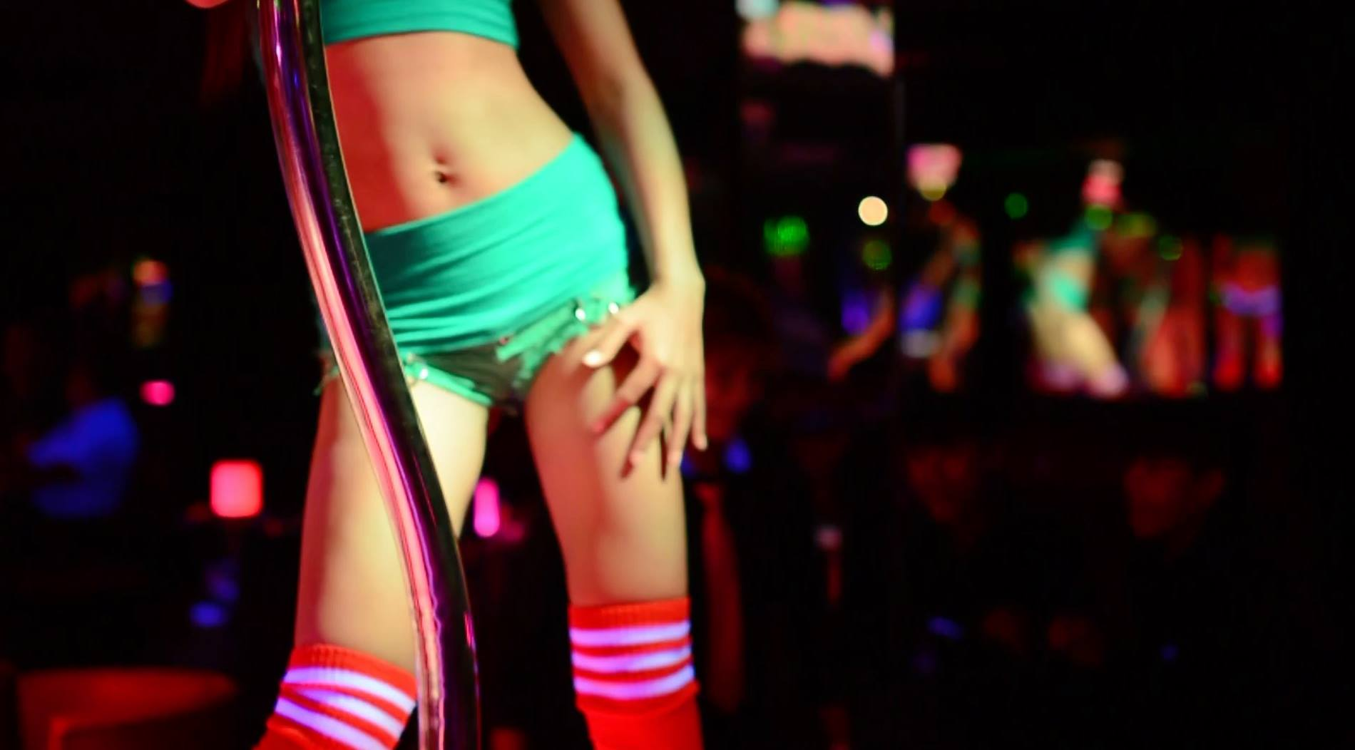 a dancer